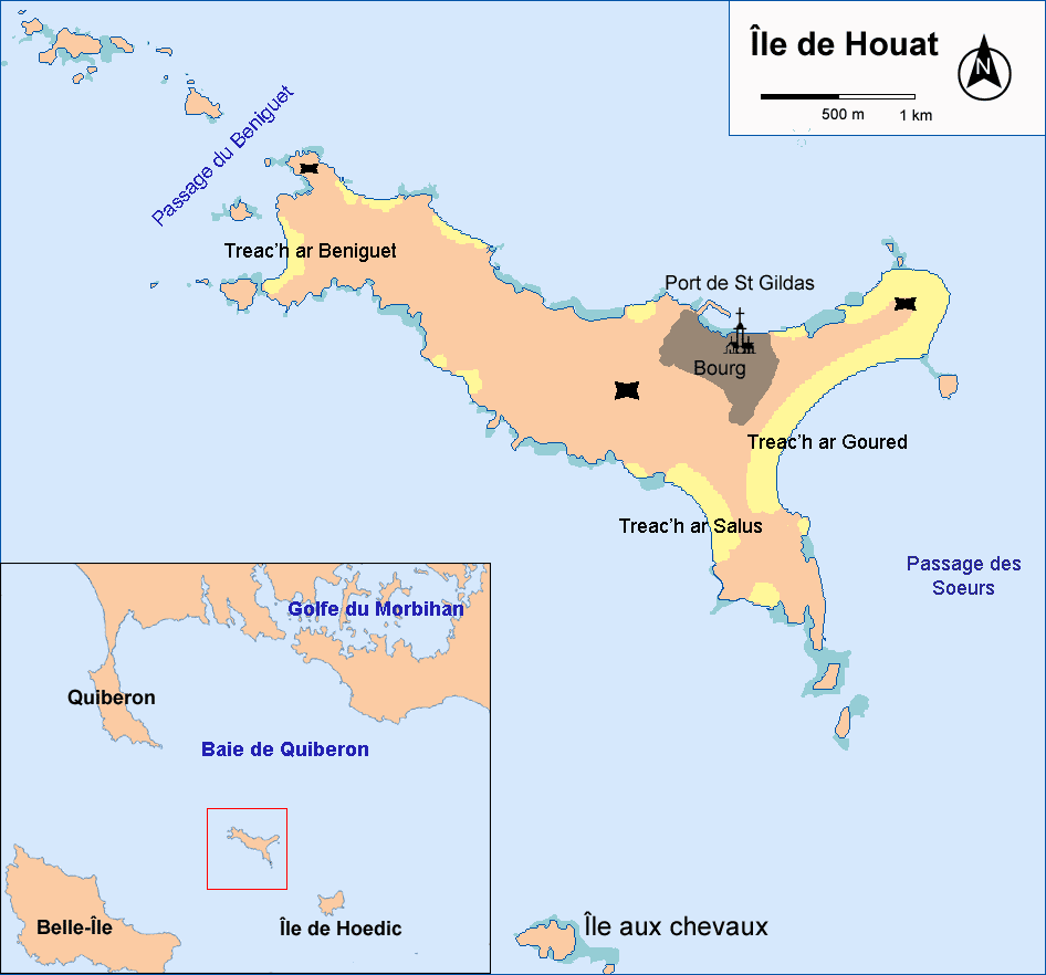 Description : Map of the island of Houat Place : Ile de Houat, Bretagne, France Date : juin 2006 Author : Pline réalisation personnelle